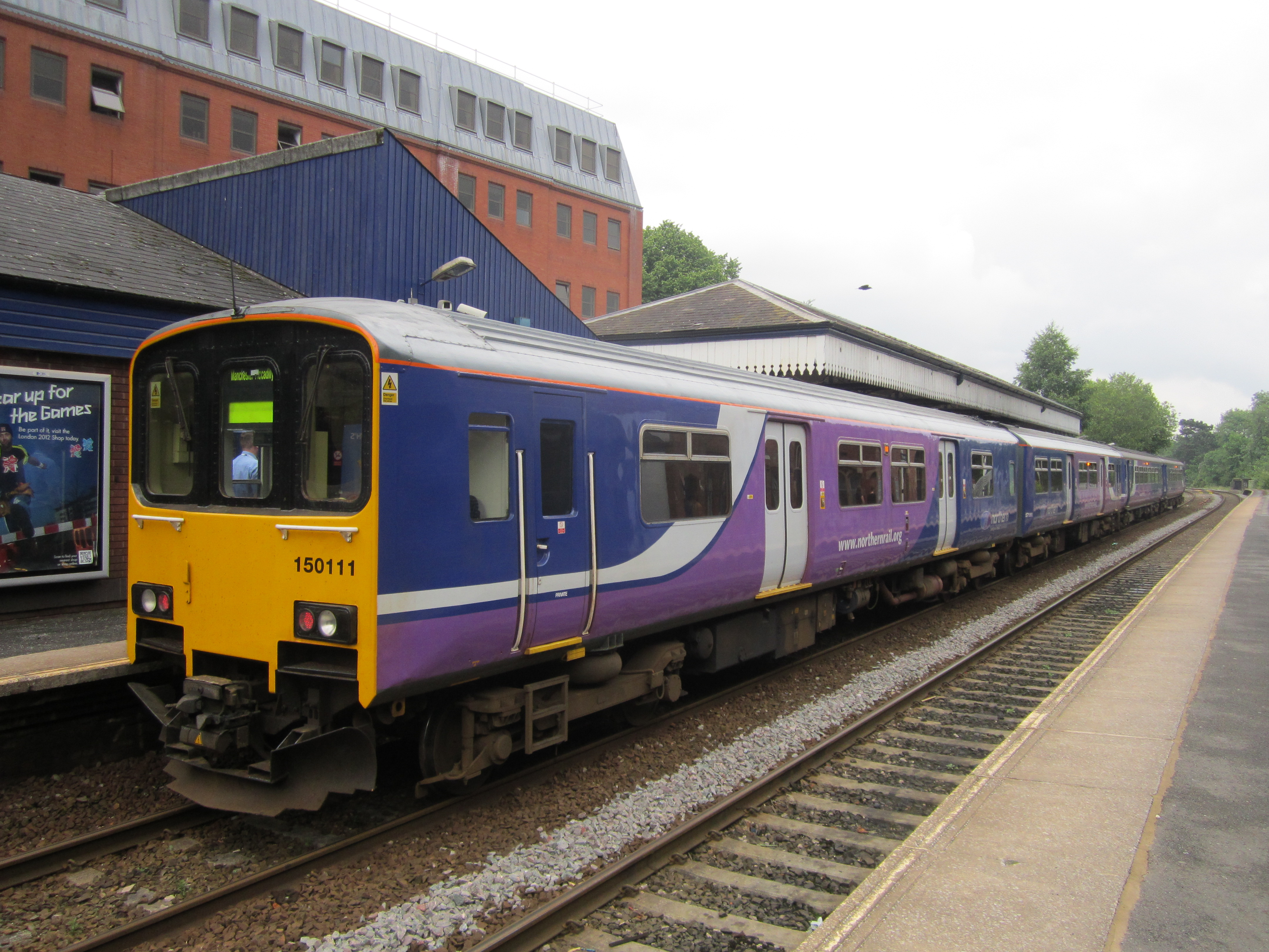 Knutsford railway station, Cheshire, England.